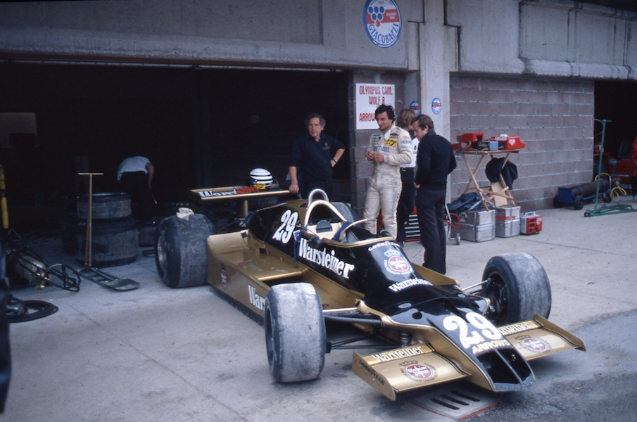 Riccardo Patrese with his Arrows A1B at Imola in 1979.